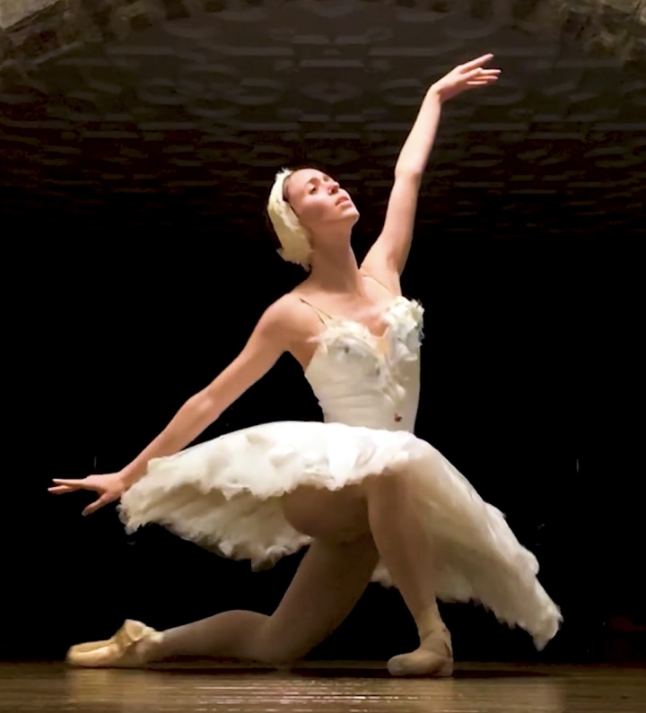 Skylar Brandt, American Ballet Theatre, USA Donate: 32 premier ballerinas from 22 dance companies in 14 countries perform Le Cygne (The Swan) variation sequentially in support of Swans for Relief. Organized by Misty Copeland and Joseph Phillips, 100% of the funds raised will be distributed to each dancer’s company’s COVID-19 relief fund, or other arts/dance-based relief fund in the event that a company is not set up to receive donations. To donate please visit, Ballet companies are largely dependent on revenue from performances to pay their dancers and fund their operations, but due to the coronavirus pandemic, all performances have been halted. Consequently, many dancers are unable to depend on paychecks and are facing the hardship of paying rent and/or buying food and other necessities. Le Cygne (The Swan) with music by Camille Saint-Saëns, performed by cellist Wade Davis (USA), with choreography by Michel Fokine by kind permission of the Fokine Estate-Archive.